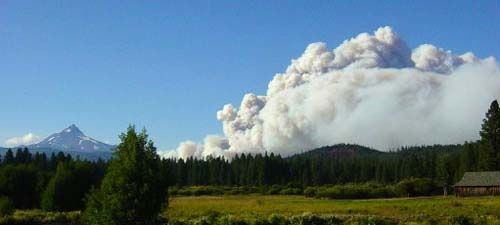 Bear Butte Fire area of the B&B Complex Fires in the Oregon Cascade Mountains, 19 August 2003